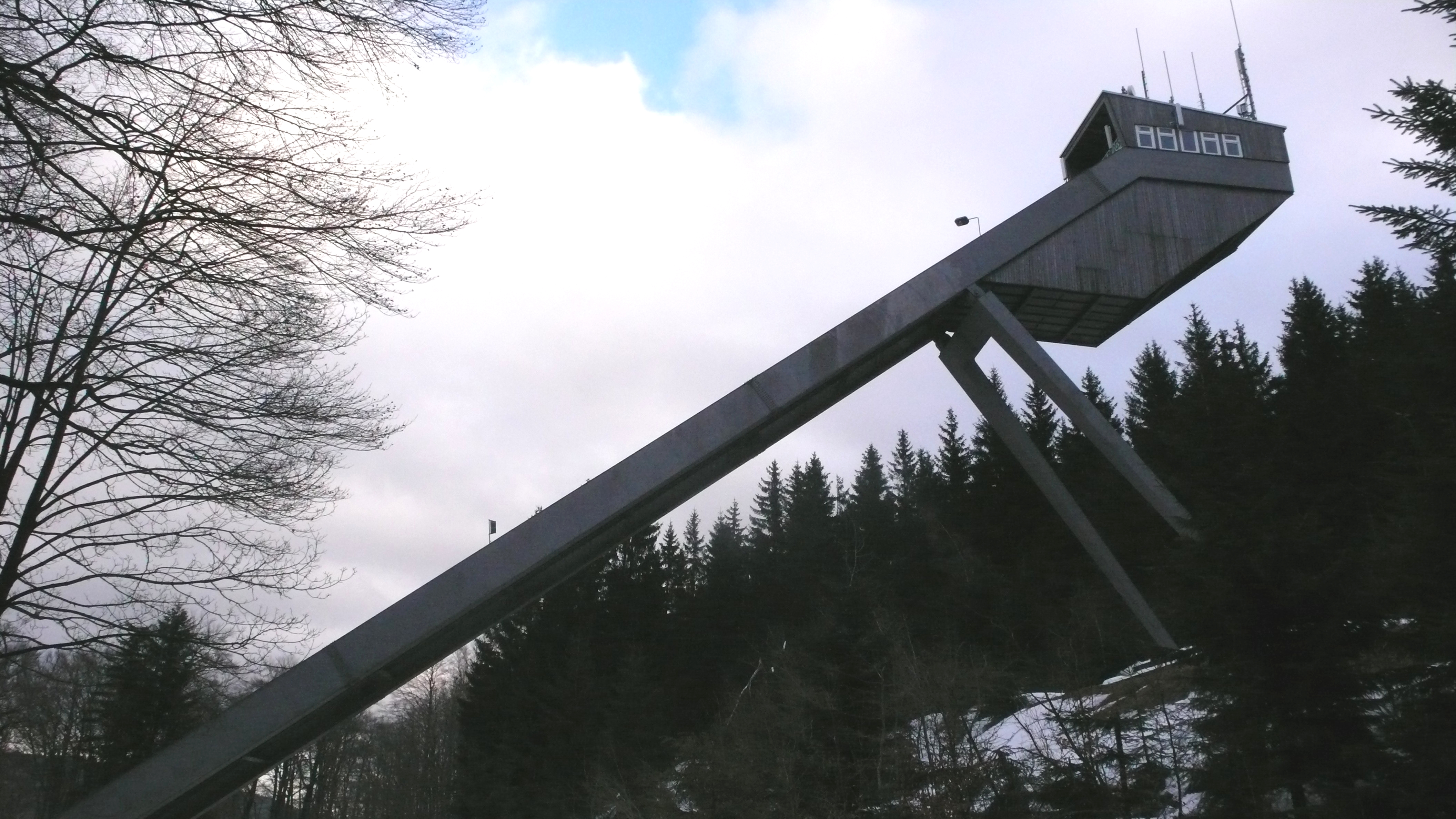 The jumping hill of "Inselbergschanze", in Brotterode